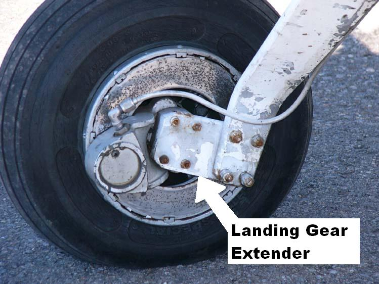 I took this photo and release it to the public domain